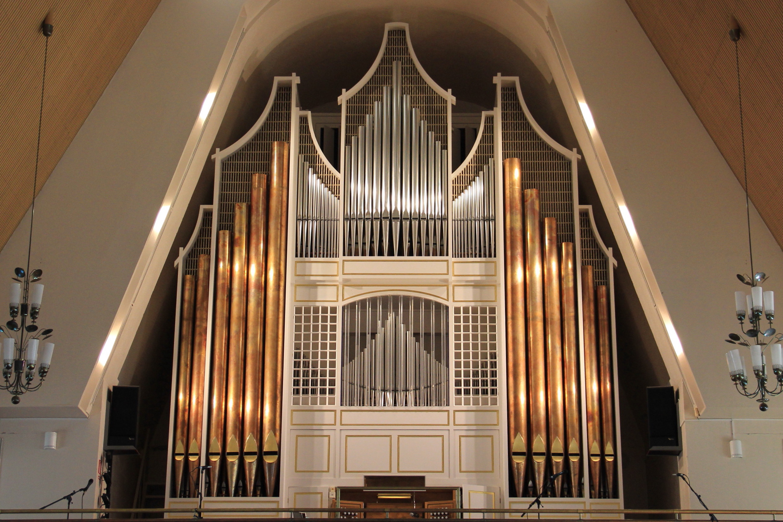 Rovaniemi church, Rovaniemi, Finland. - Church organ.